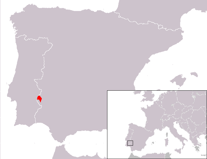 Location of Olivenza, Portugal